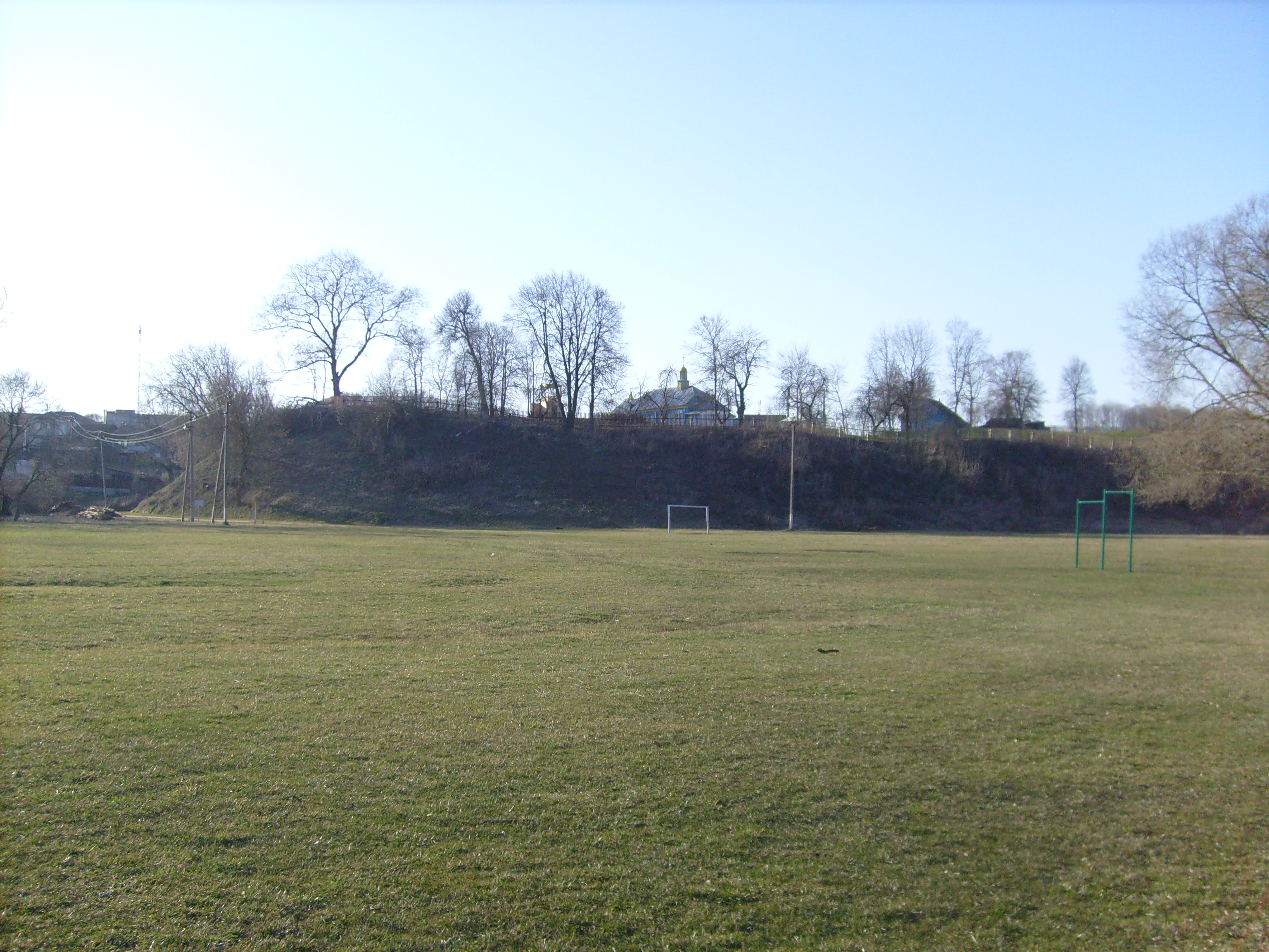 Krichev Castle and Church of Saint Nicholas in Krichev